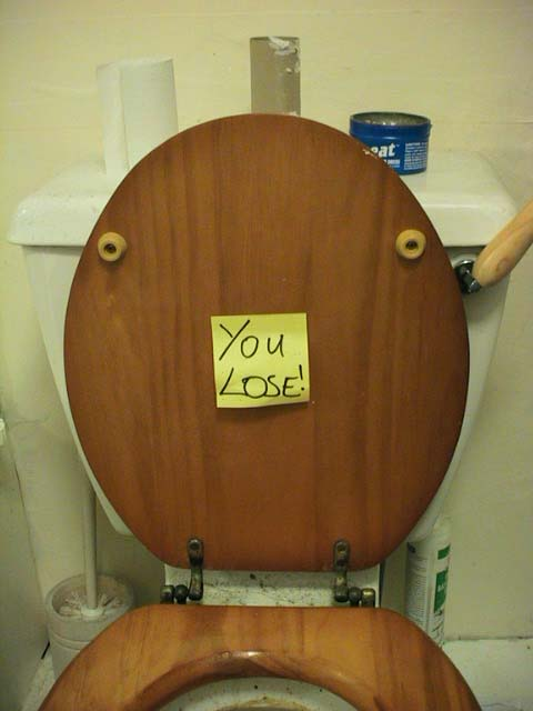 I took this photo, you lose The Game. It is common in some social circles to hide notes saying "You lose" in odd places, such as in this picture, forcing people to lose the game when they use the loo.